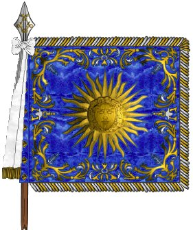 Standard of the 2ème Compagnie Française of the French Gardes du Corps. Created by PMPdeL. N.B.: since there was a 1ère Compagnie Écossaise which had precedence over the 1ère Compagnie Française, some authors designate the 2ème Compagnie Française simply as the 3ème Compagnie (overall ranking). Courtesy of Kronoskaf. Licensing